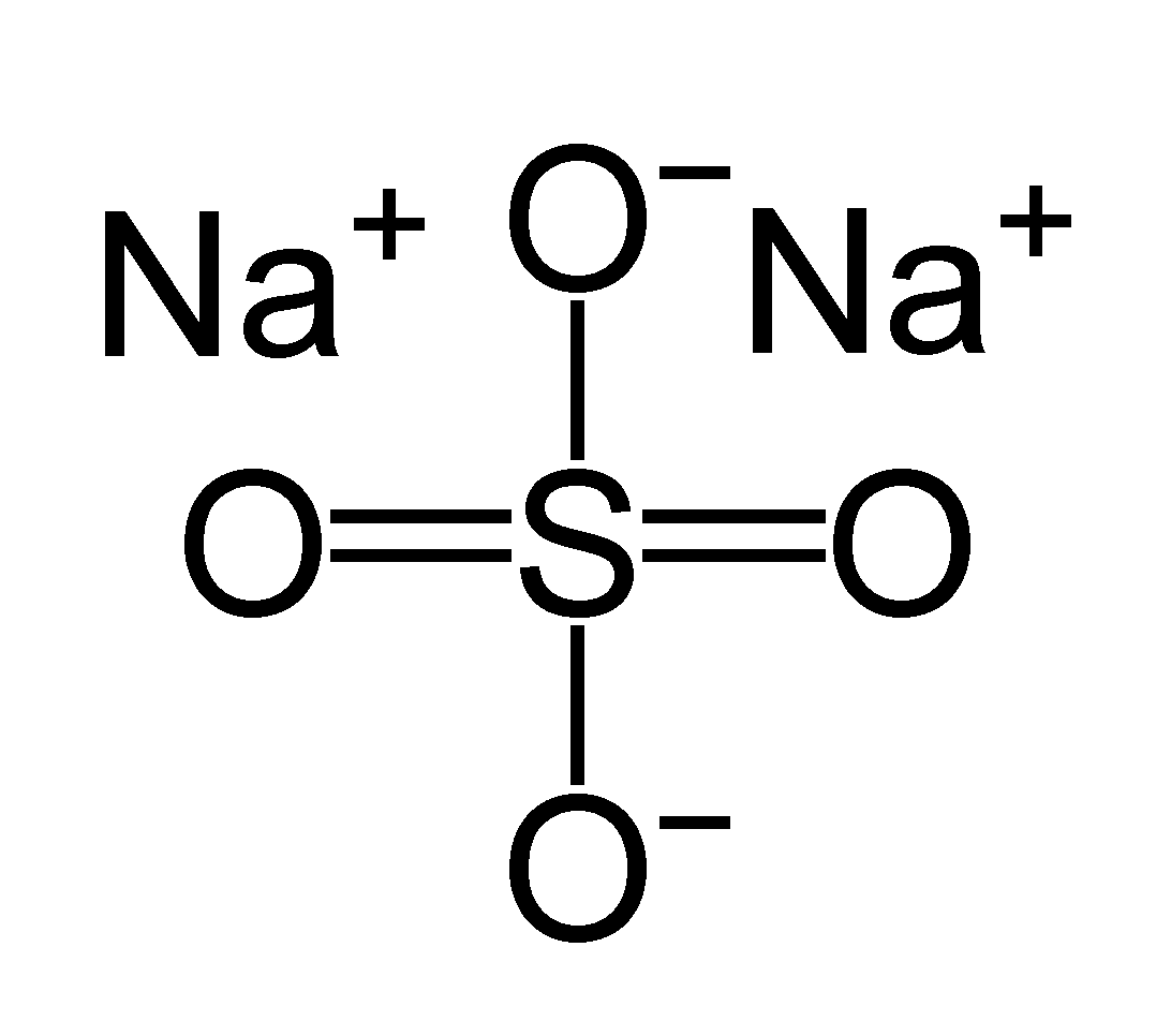 Chemical structure of sodium sulfate. Created by Mysid in ChemDraw/GIMP on December 13, 2005.